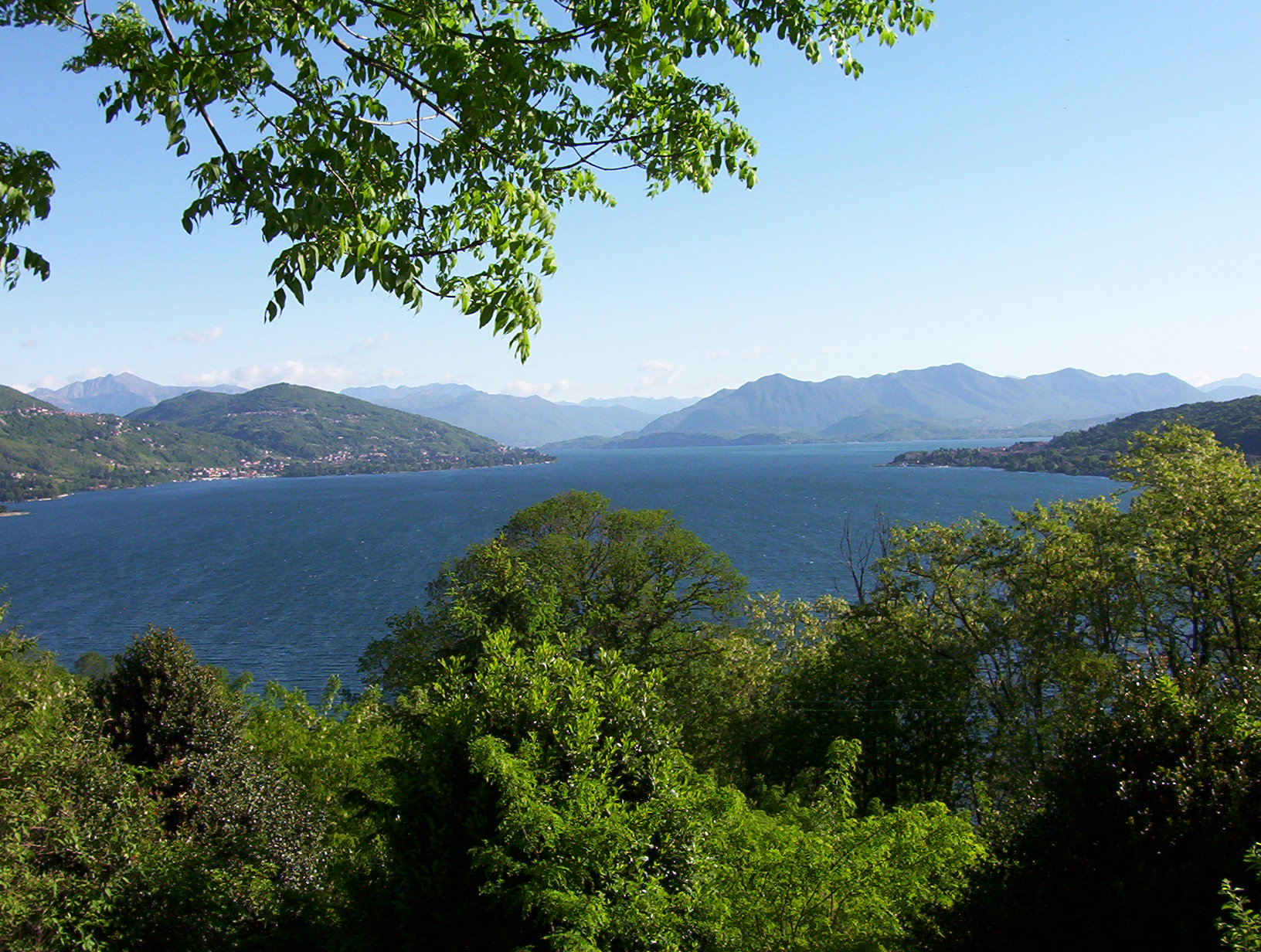 Lago Maggiore - View from San Carlo statue in Arona